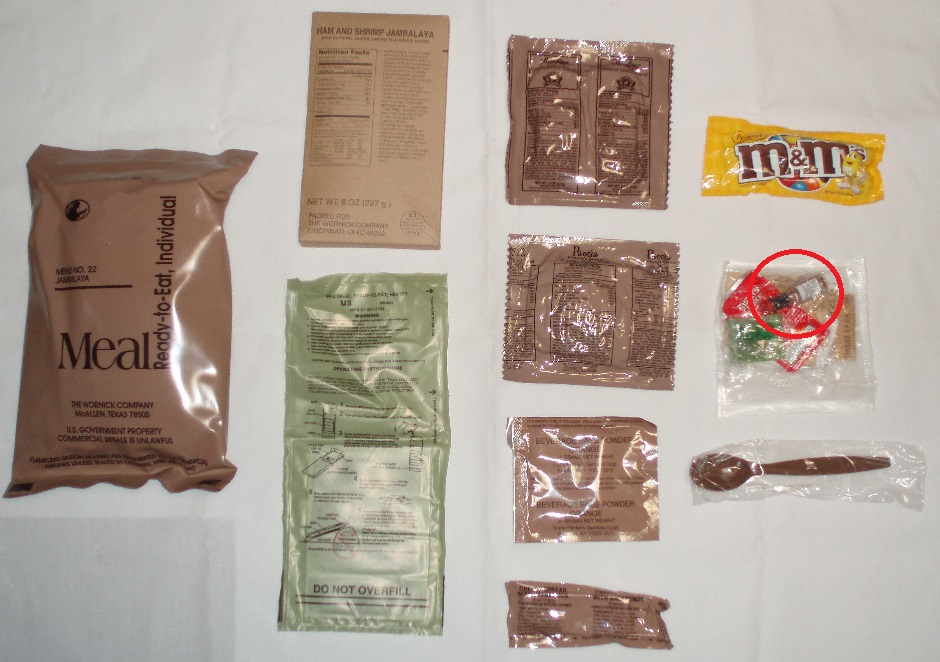 Tabasco sauce highlighted in an MRE. I just used an image from Category:MREs. Feel free to do a better highlight with a better image and overwrite this file.